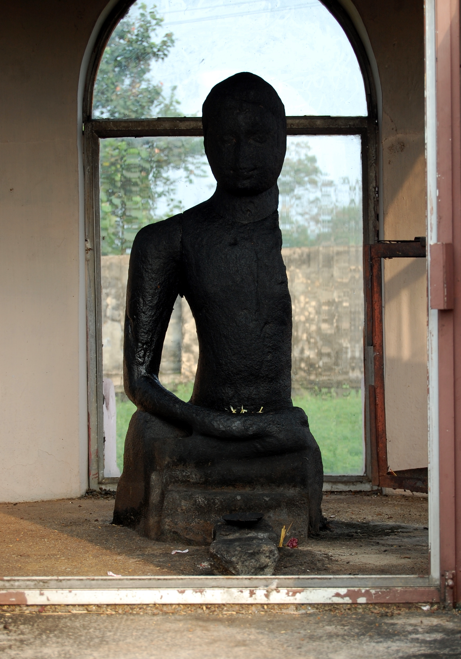 Buddha statue in Alappuzha, Kerala, India